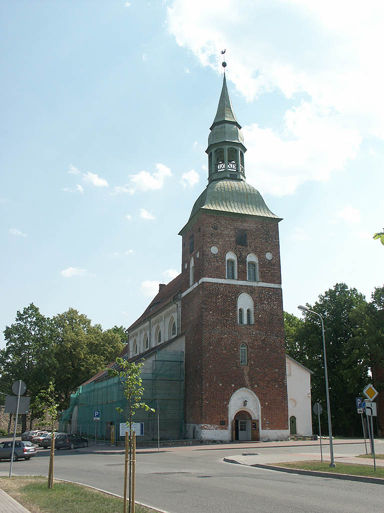 Valmiera Saint Simon Evangelical Lutheran Church